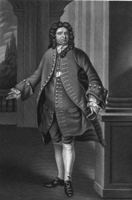 Full-length portrait of Lieut. Gov. John Wentworth of New Hampshire from "The Wentworth Genealogy, England and American, Volume 1," by John Wentworth, Little, Brown and Company, Boston, 1878.